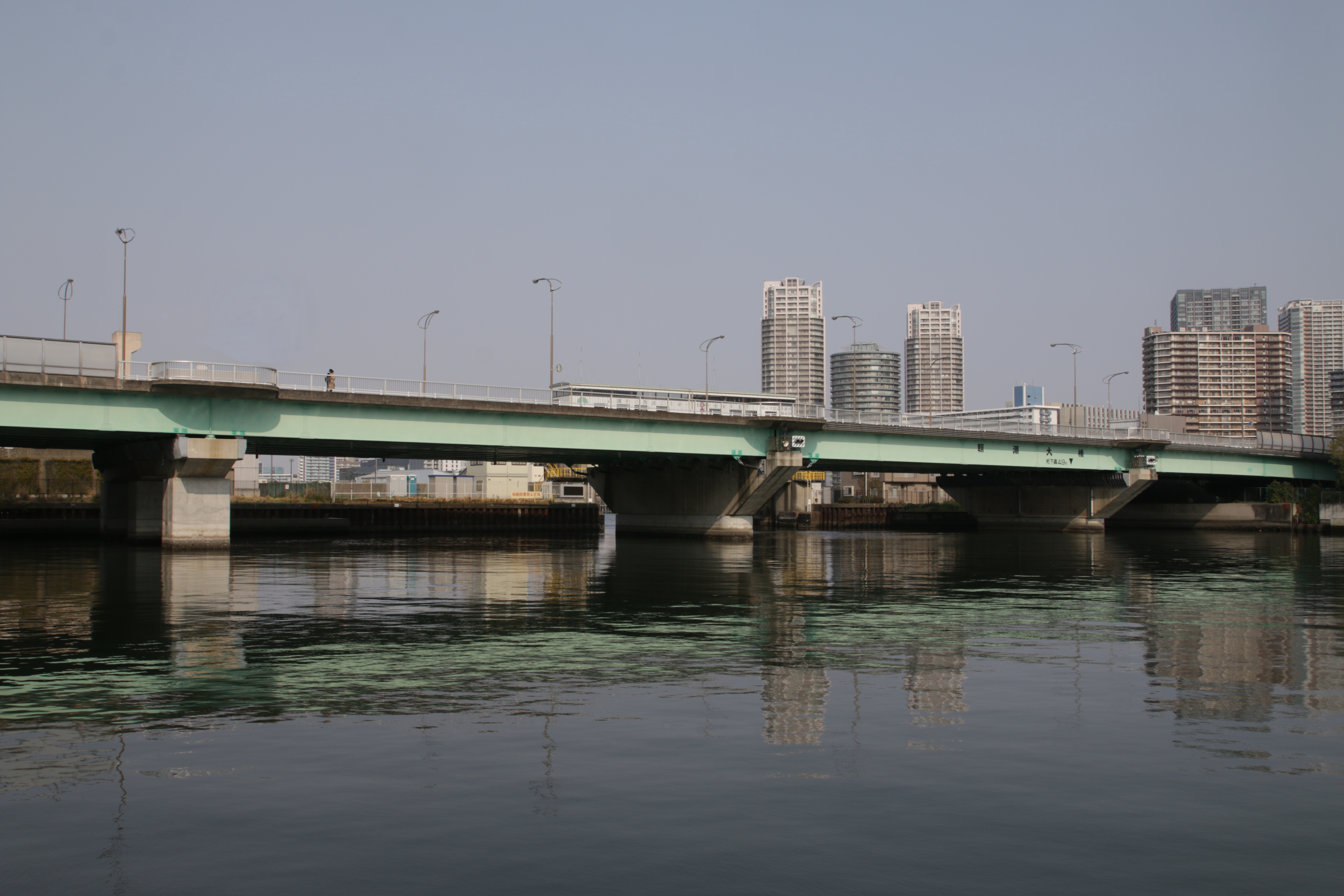 Asashio-Ohashi from Asashio canal side, taken on 2019-04-07